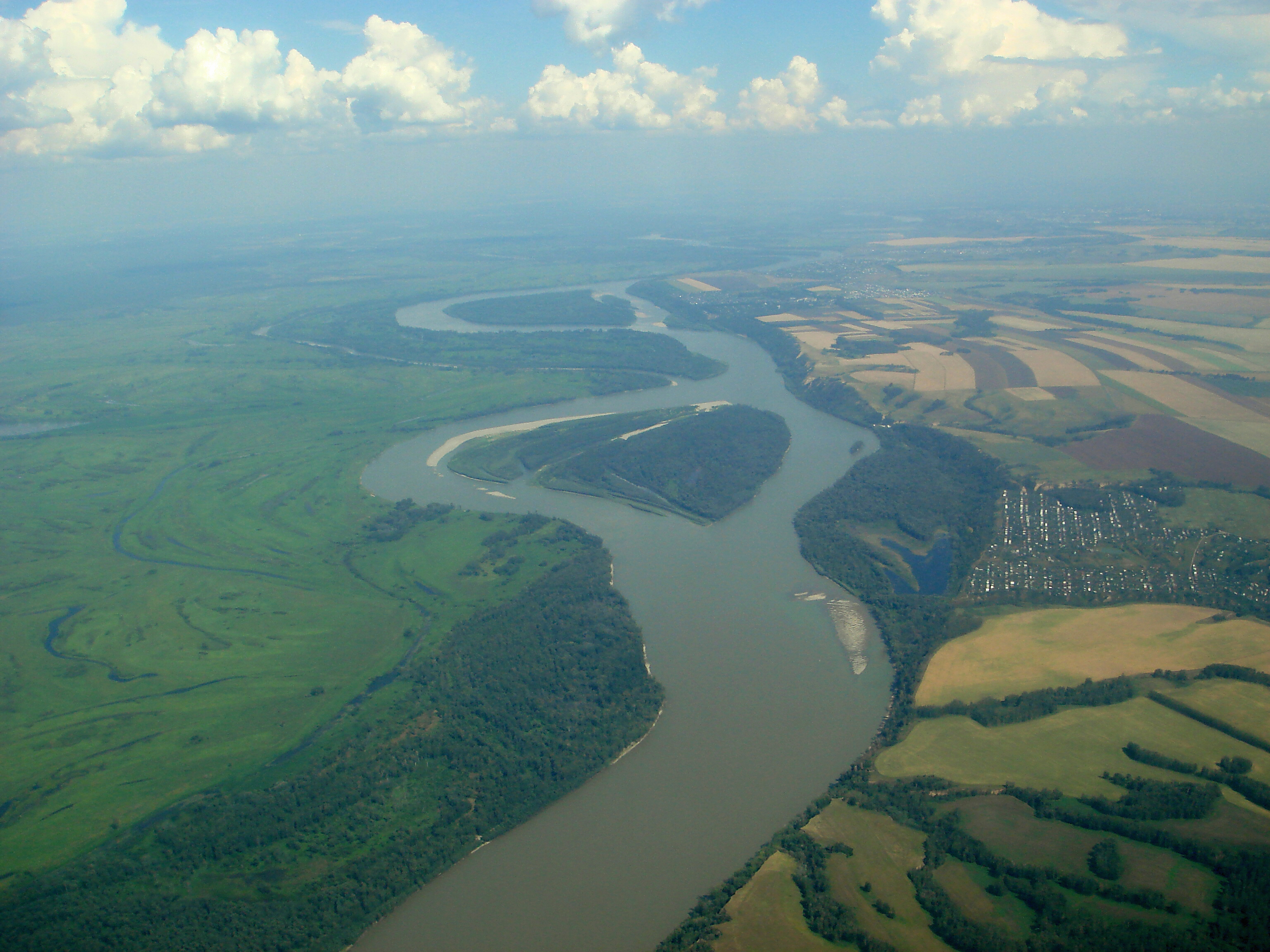 River Ob near Barnaul (Altai Krai, Russia).